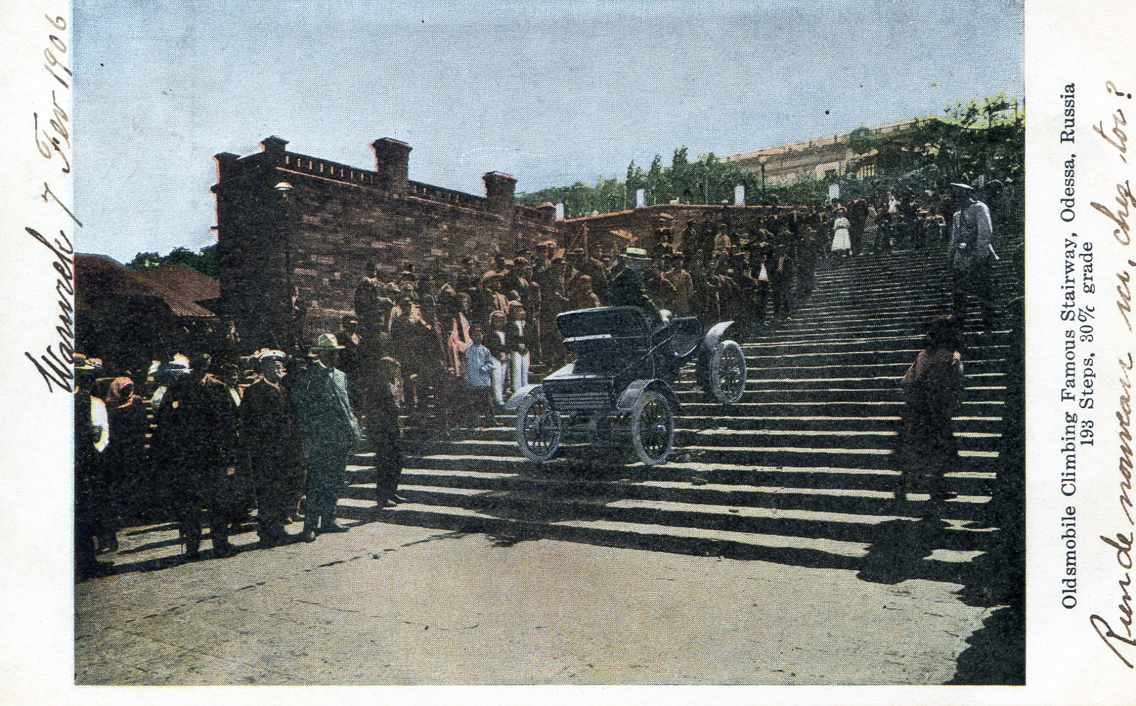 Post Card, used by post in 1906 showing photo of Oldsmobile car climbing Giant steps in Odessa, Russian Empire